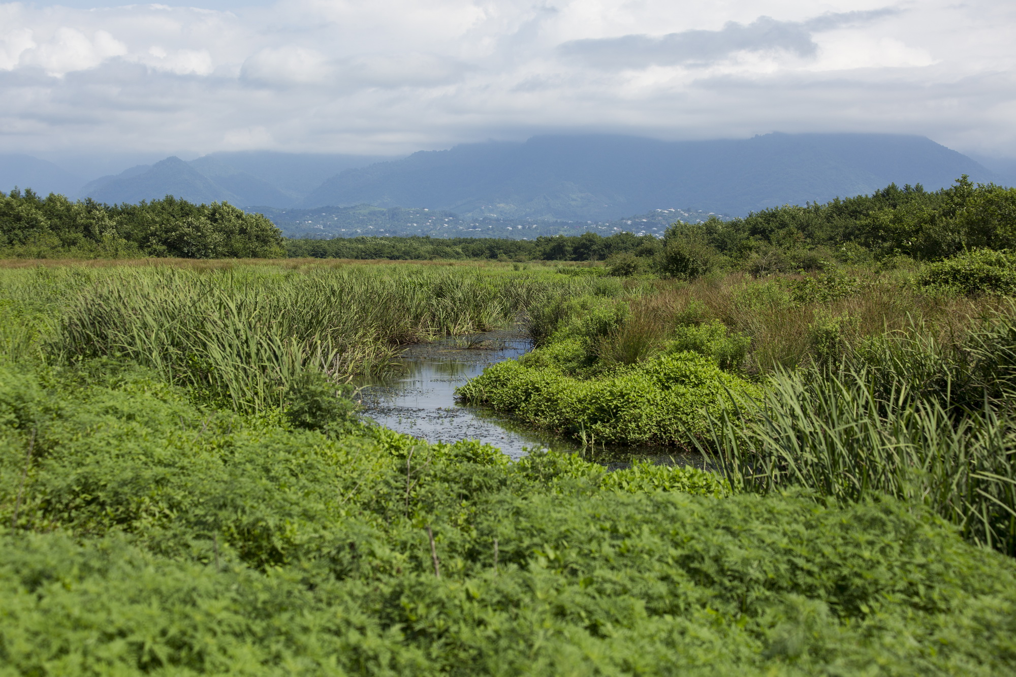 Kobuleti Protected Areas (Kobuleti State Reserve and Managed Reserve) was established in order to save unique waterfowl habitat wetland ecosystems of international importance, as natural heritage of high values, which have been recognized by the Ramsar Convention. The mentioned wetlands are located in Achara autonomous republic and include north-eastern part of Kobuleti coastal plain and are distinguished by diversity of birds and plants. Kobuleti Protected Areas is an important habitat for migrating, nesting and wintering water bird species. Existing species are great interest of botanists: the white sphagnum moss and carnivorous drosera. Kobuleti Protected Areas include sphagnum peat of Ispani 1 - and Ispani, with arranged trails where visitors can carry out educational-scientific tours. Visitors center is combined into administrative building. It is also possible to rent skis and walk along sphagnum peat.